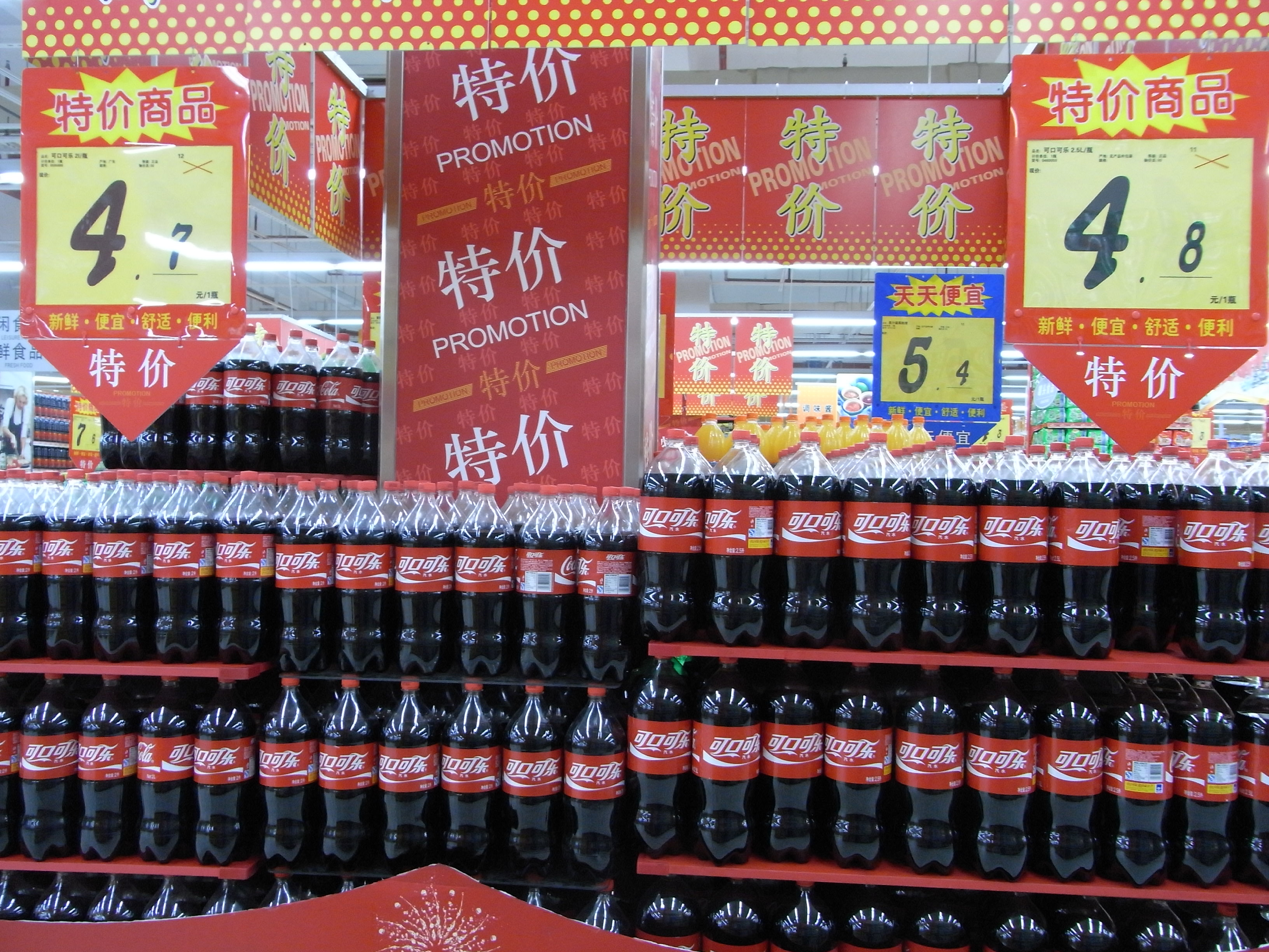 廣東省江門市新會碧桂園大潤發銷貨場